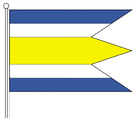 vlajka obce Sedliacka Dubová